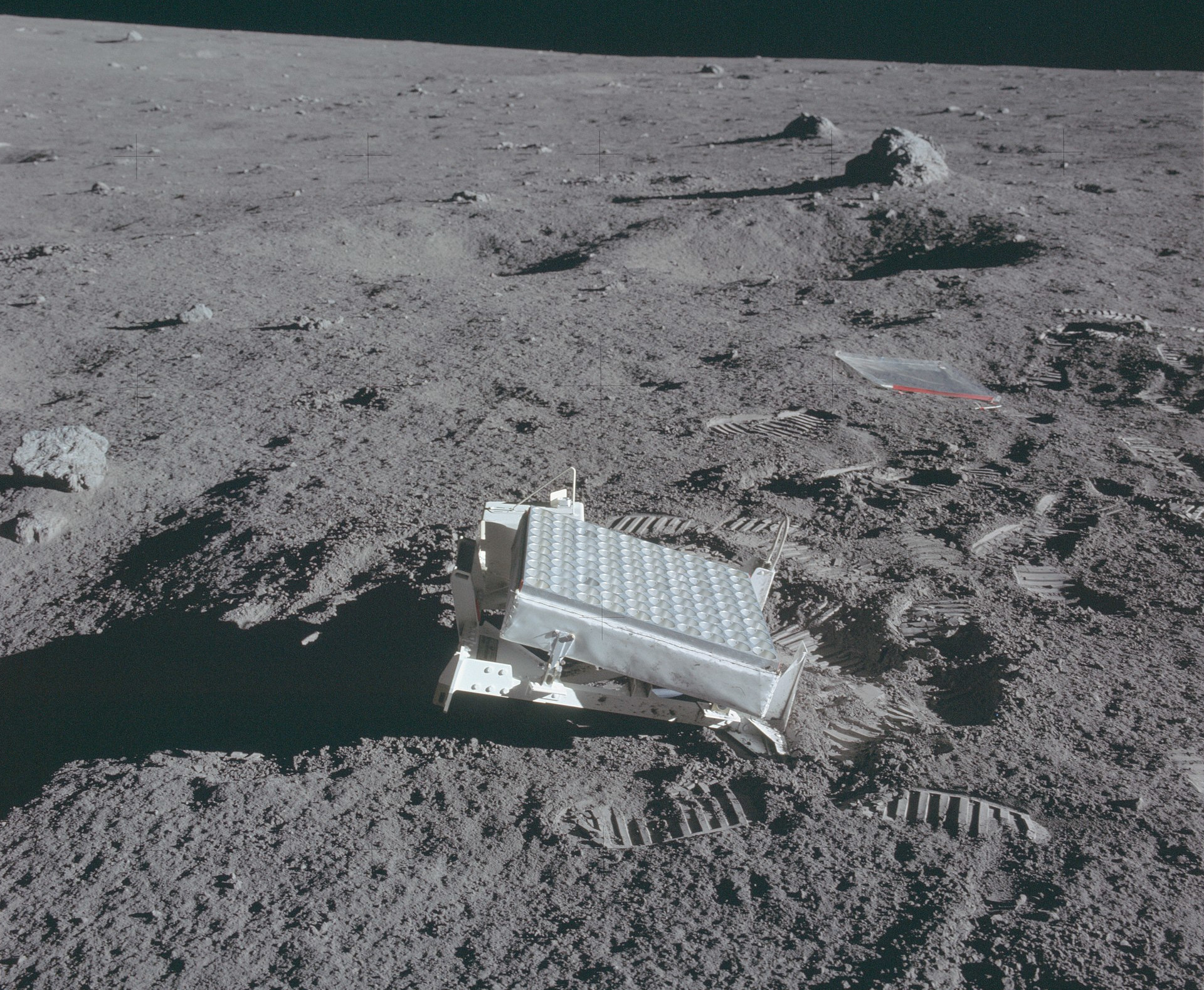 Laser Ranging Retroreflector of Apollo 14 (AS14-67-9386), cropped and lighter version